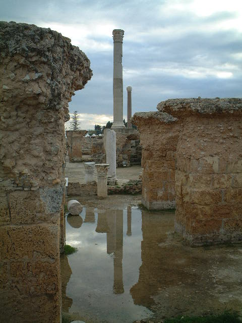 Antonine baths ruins.